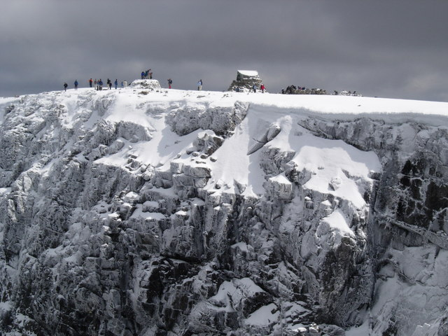 Ben Nevis Summit The summit of Ben Nevis viewed across Gardyloo Gully.